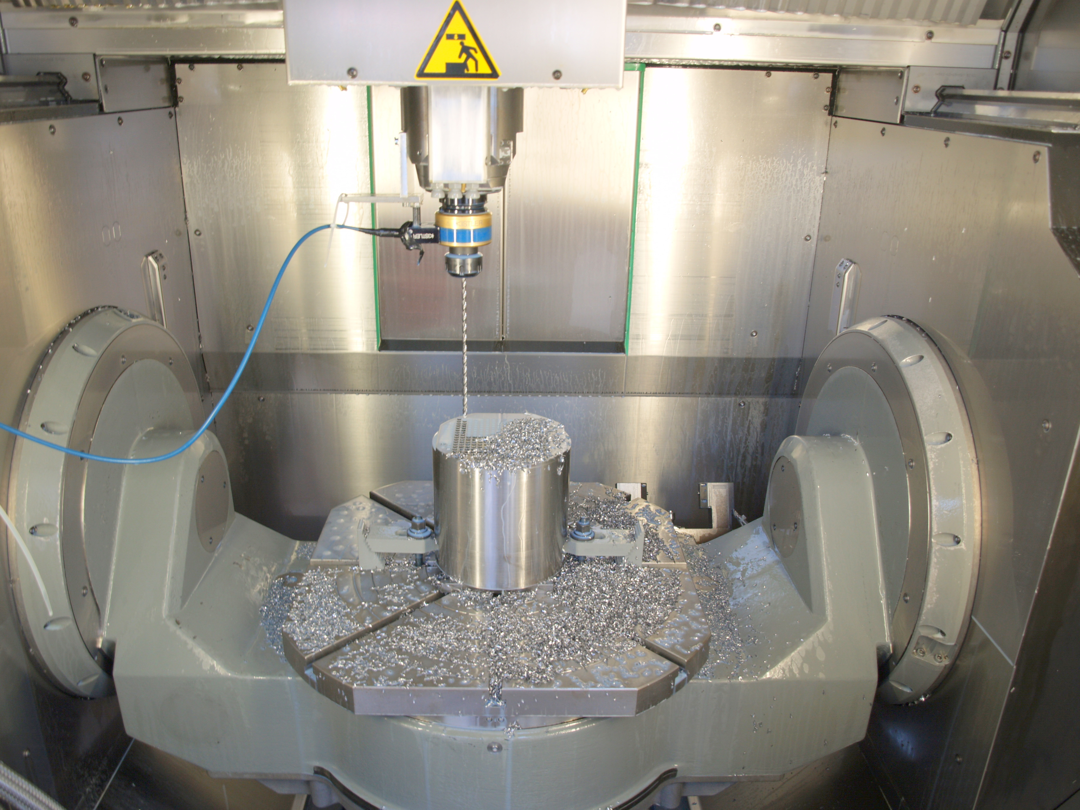 deep hole drilling (gundrilling) with solid carbide twist drill on a vertical machining center. application shown here is a machining test with moment and thrust measurements using a rotation dynamometer (tool holder with wireless data transfer). Diameter 6mm, hole depth 180mm